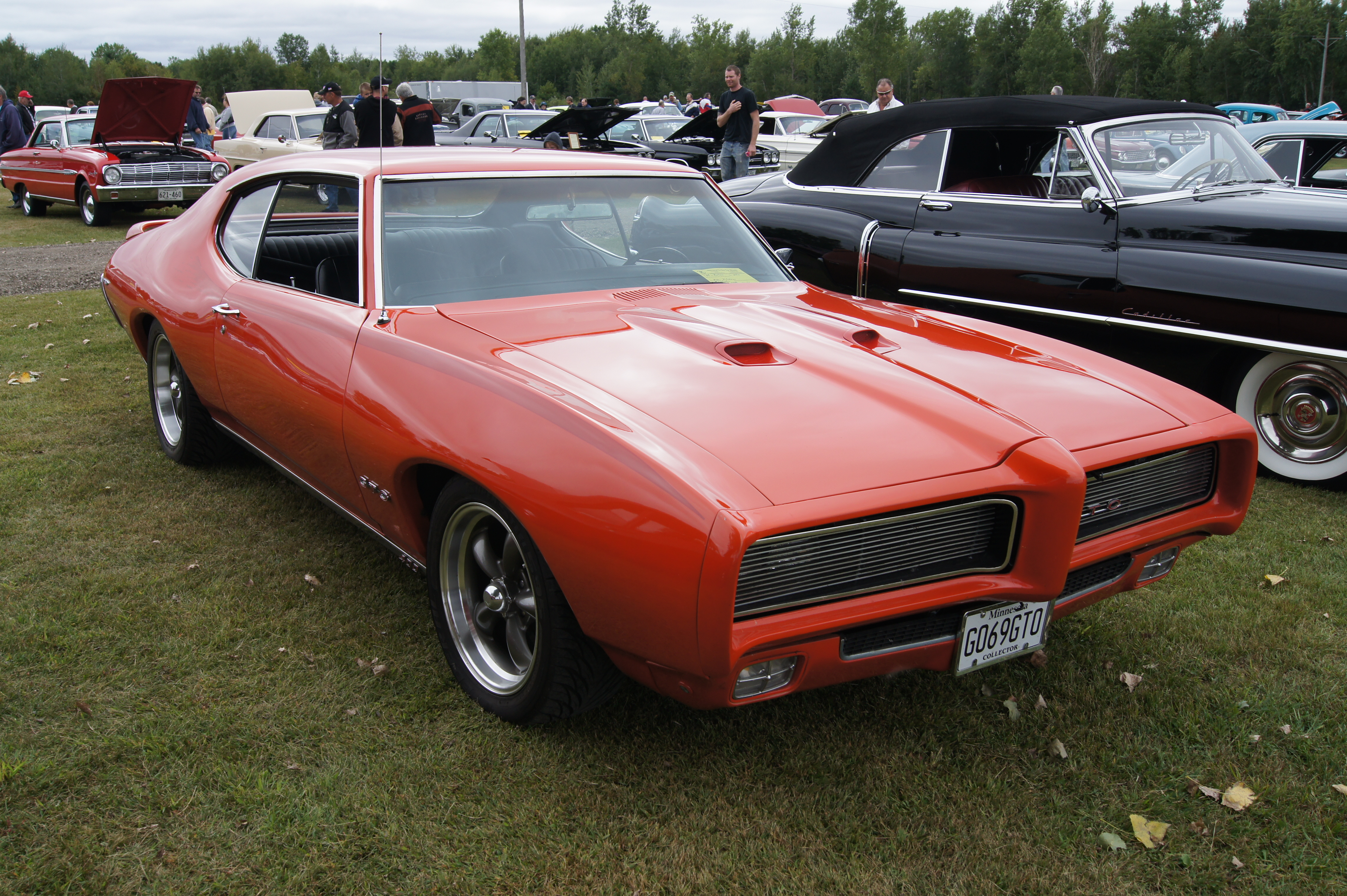 North Star Chapter Studebaker Drivers Club 13th Annual Labor Day Car Show September 2, 2013 Blacksmith Lounge Hugo, MN